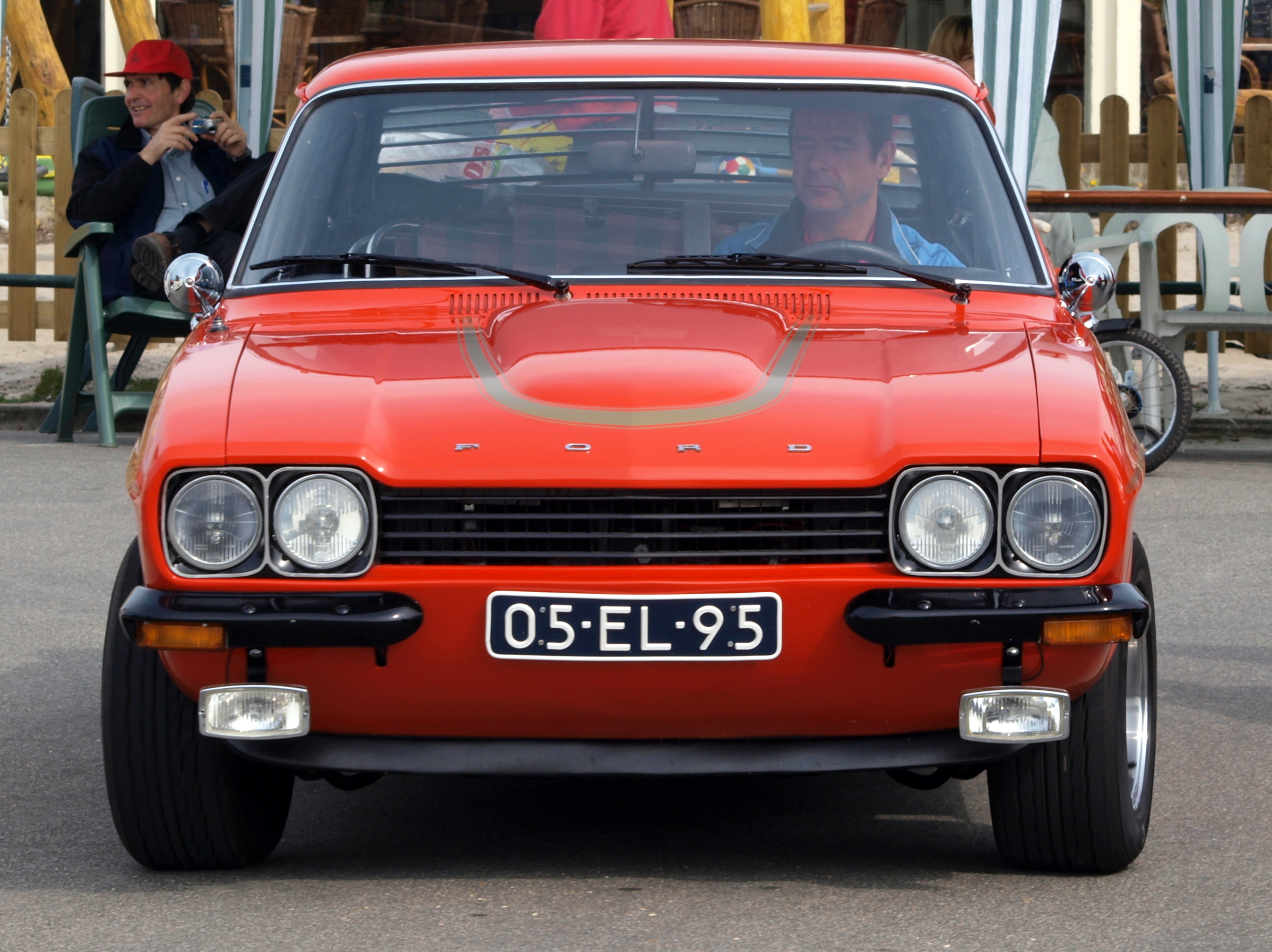 Cars and motorcycles photographed at the Voorschotense Oldtimer Vereniging Show, Valkenburgse meer, The Netherlands.